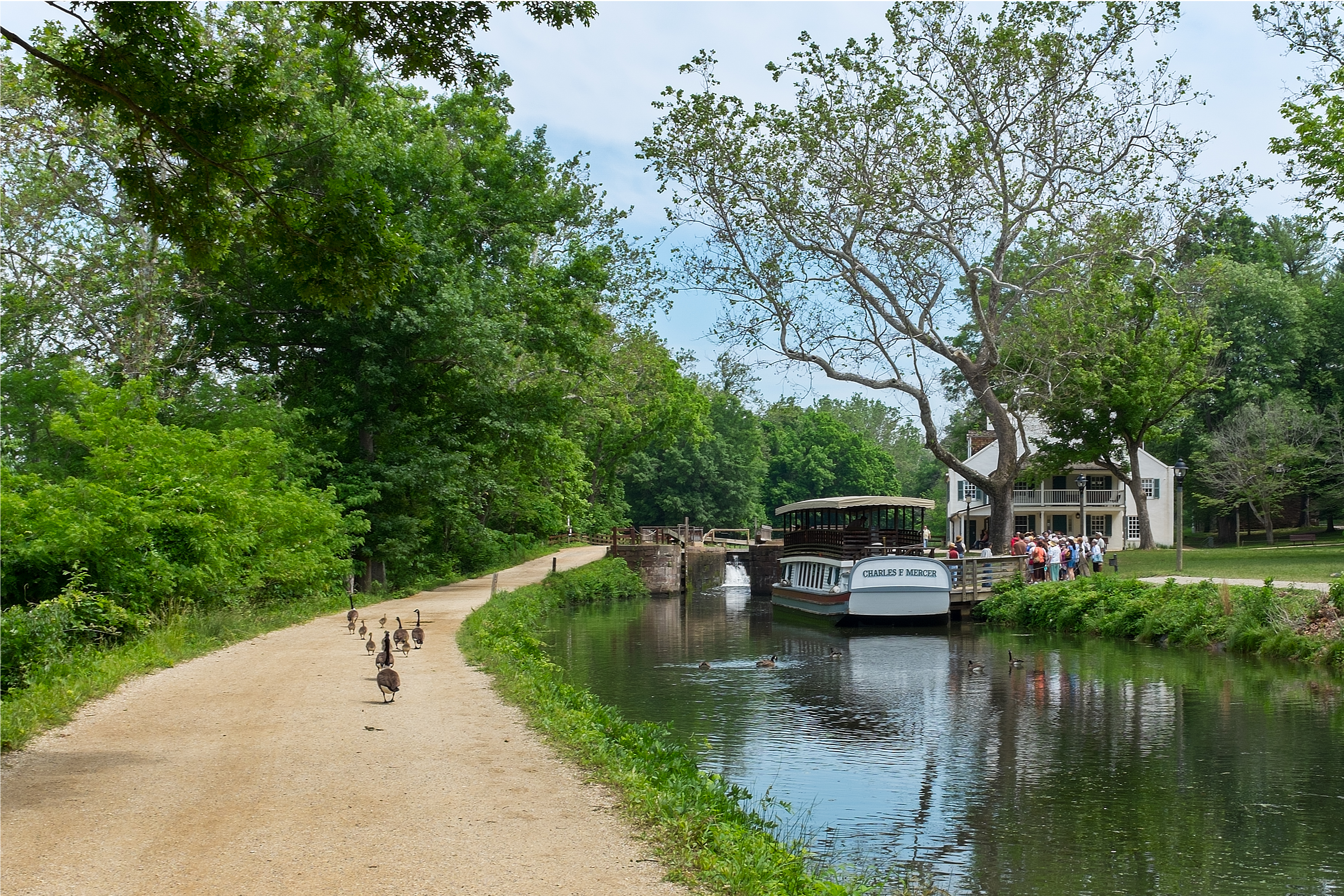 People getting on the Charles F. Mercer at Great Falls, MD, on the Chesapeake and Ohio Canal